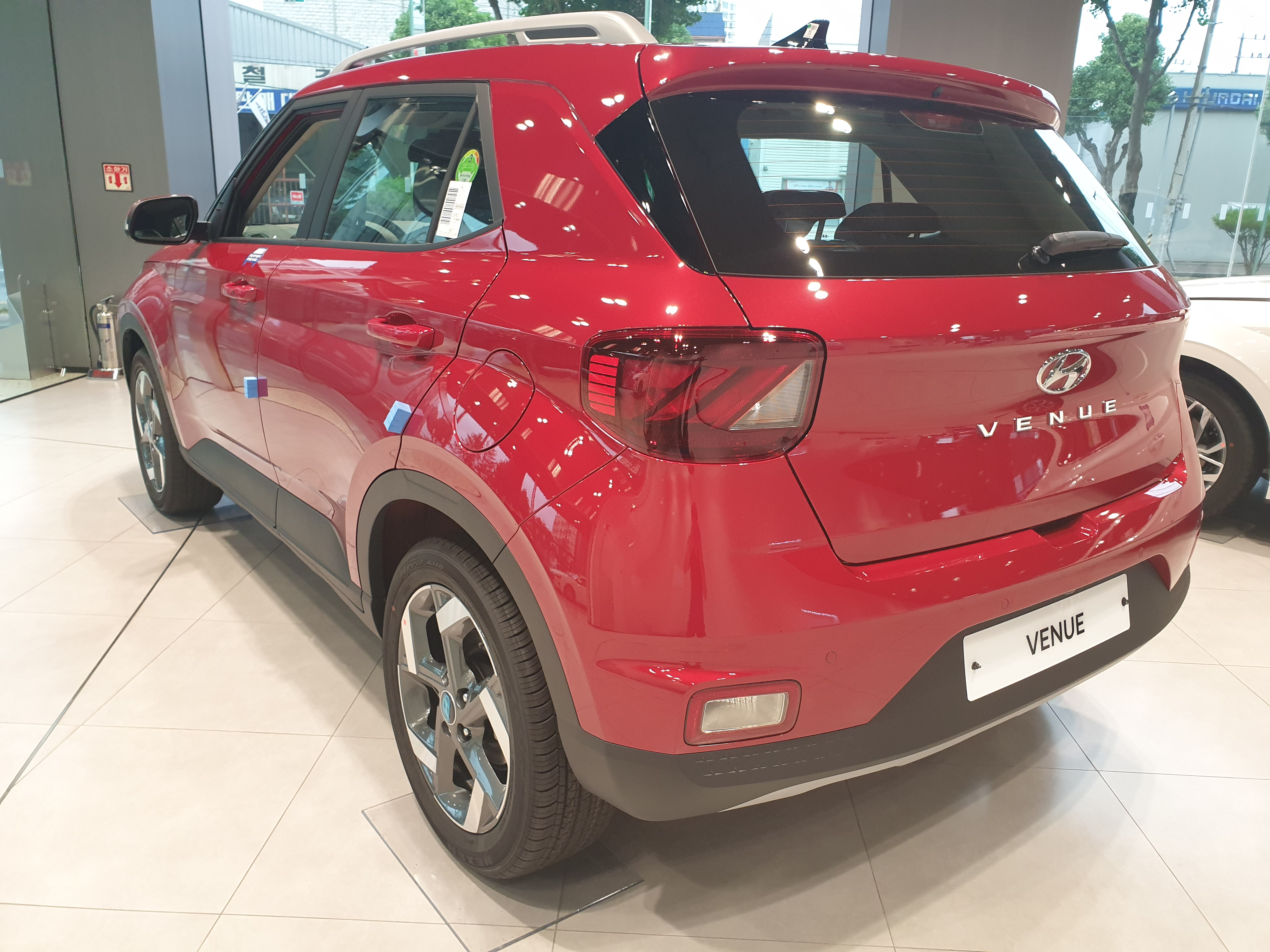 2020 Hyundai Venue Front Side(KR-Spec)